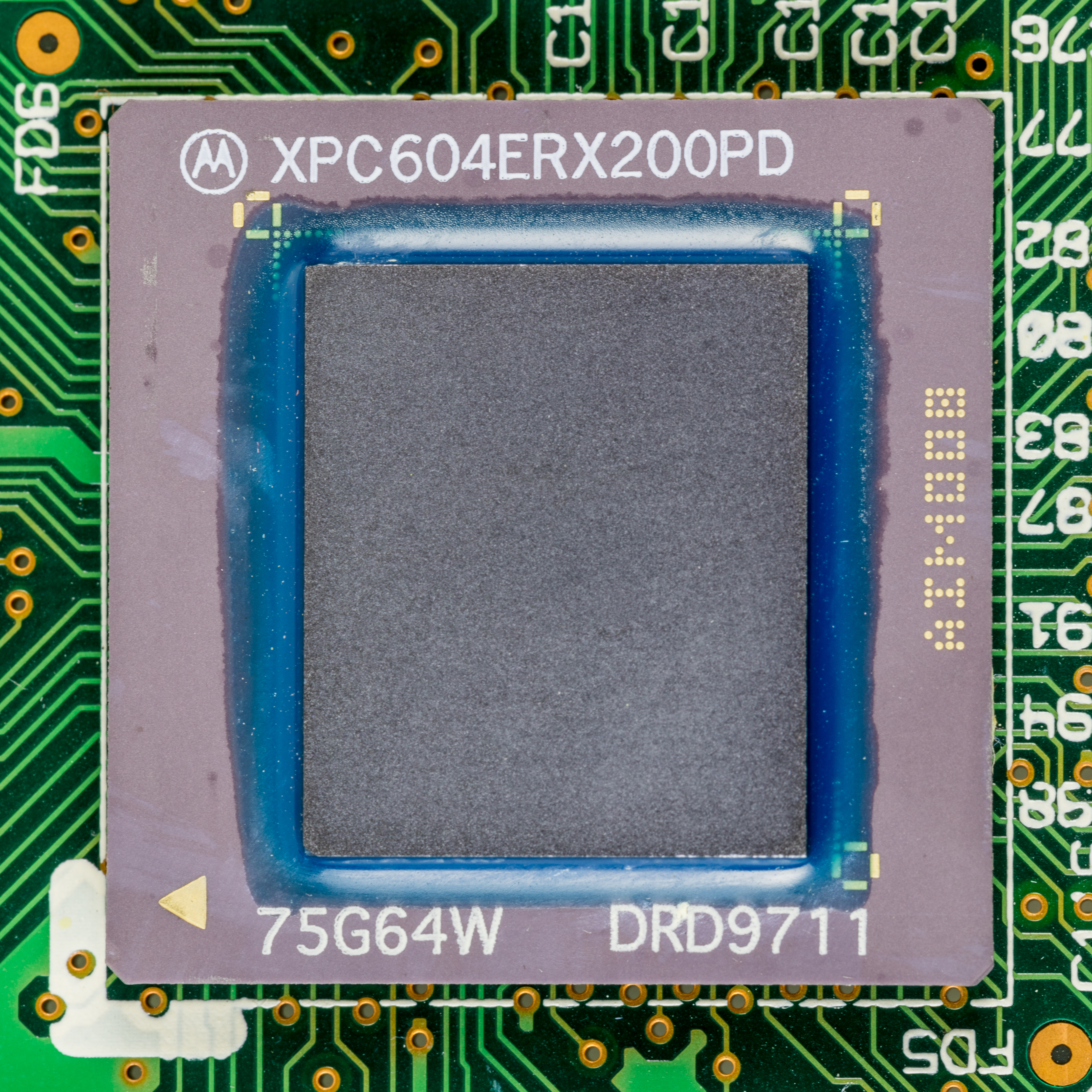 Apple 820-0849-A PowerMac Processor Card - Motorola XPC604ERX200PD - PowerPC604e RISC Microprocessor Family - PID9v-604e (Sirocco). Package: CBGA